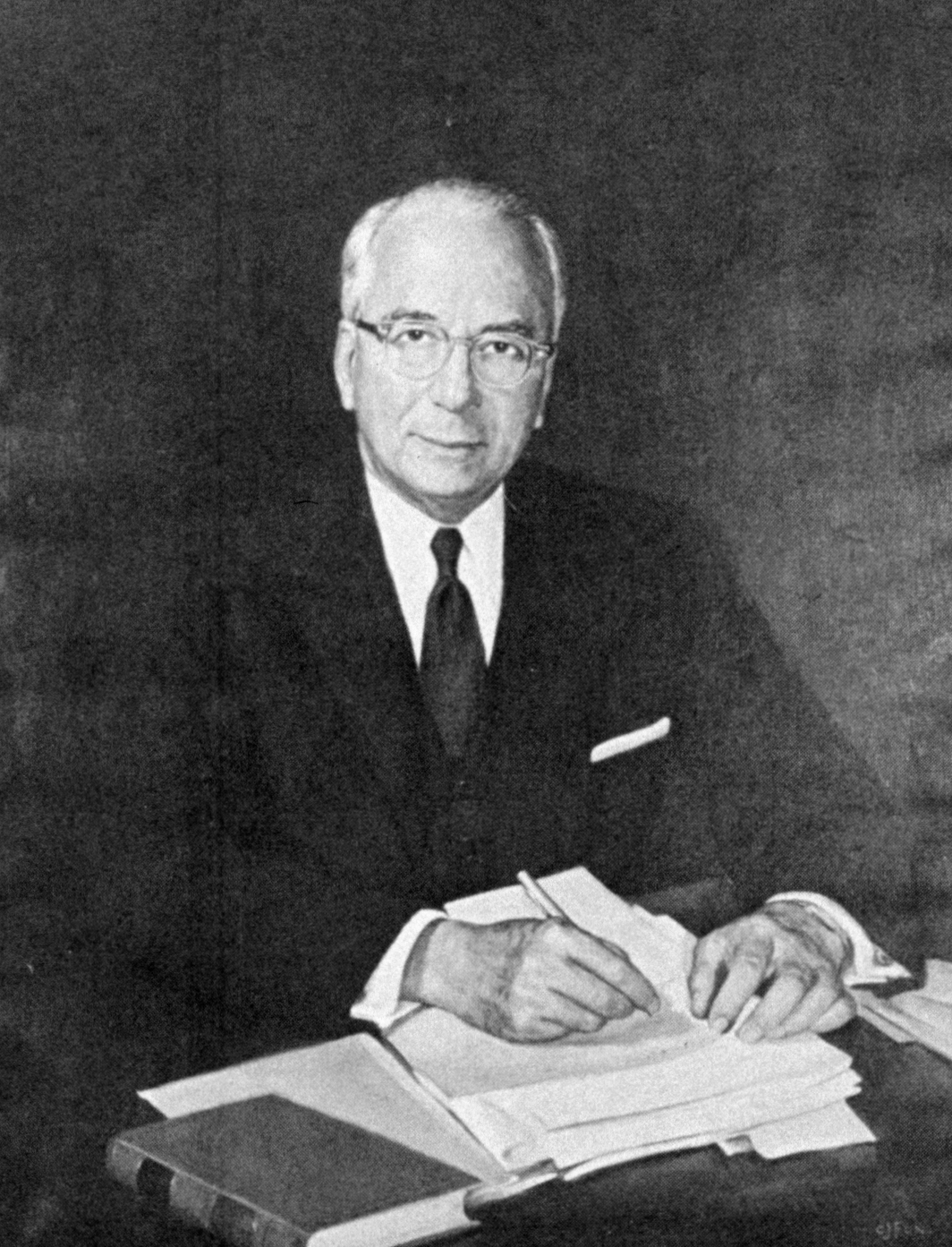 Lewis Lichtenstein Strauss, Acting Secretary of Commerce